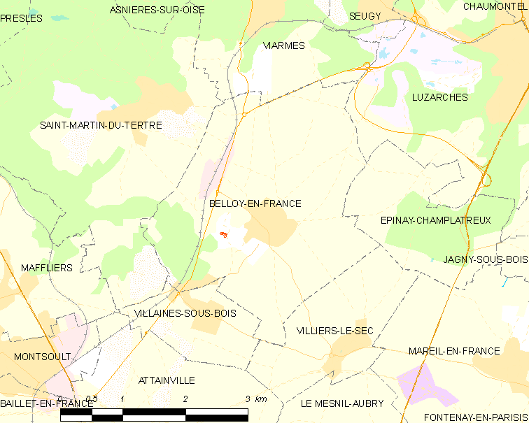 Map of French municipality Belloy-en-France